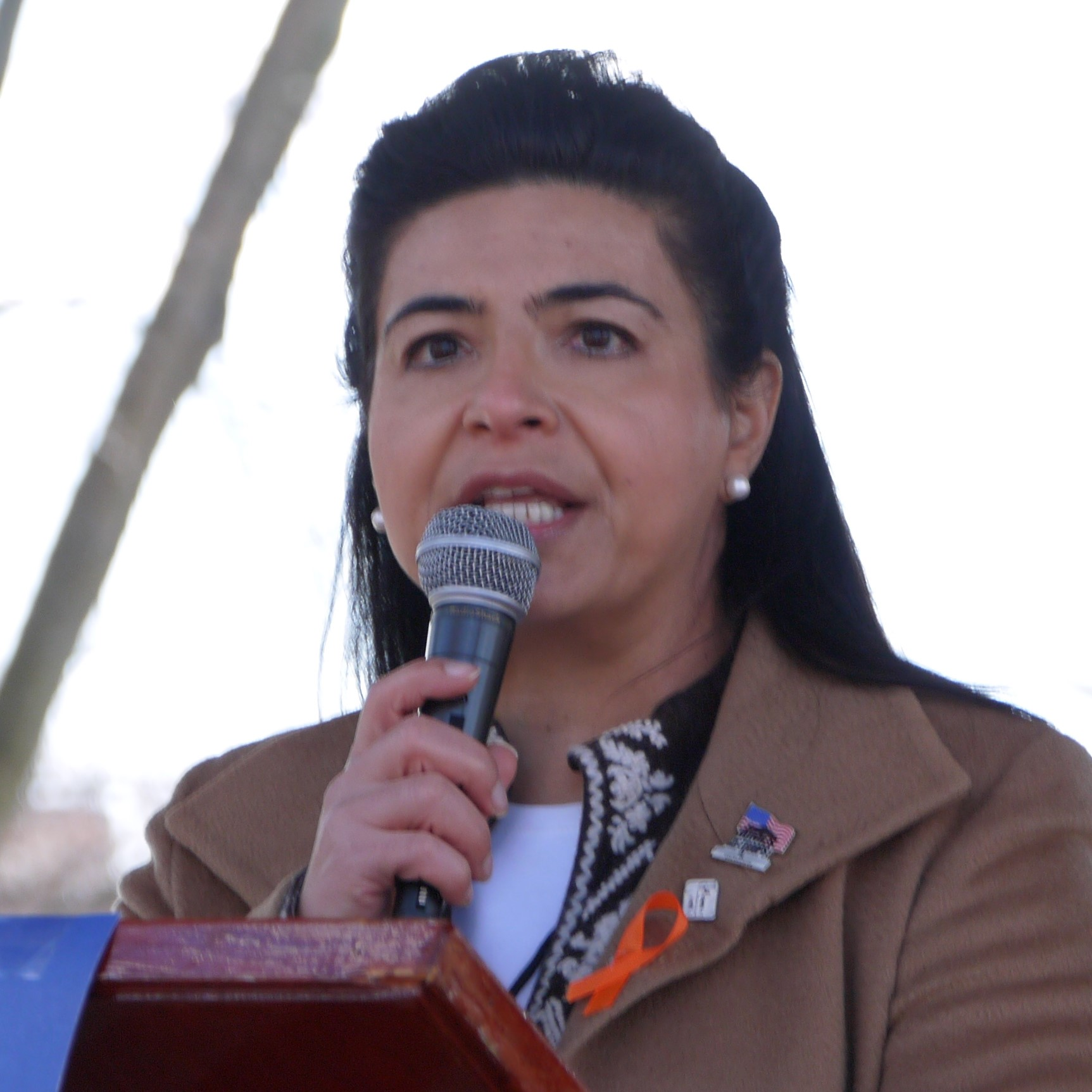 Anna Kaplan addresses a March for Our Lives Rally in Great Neck, NY